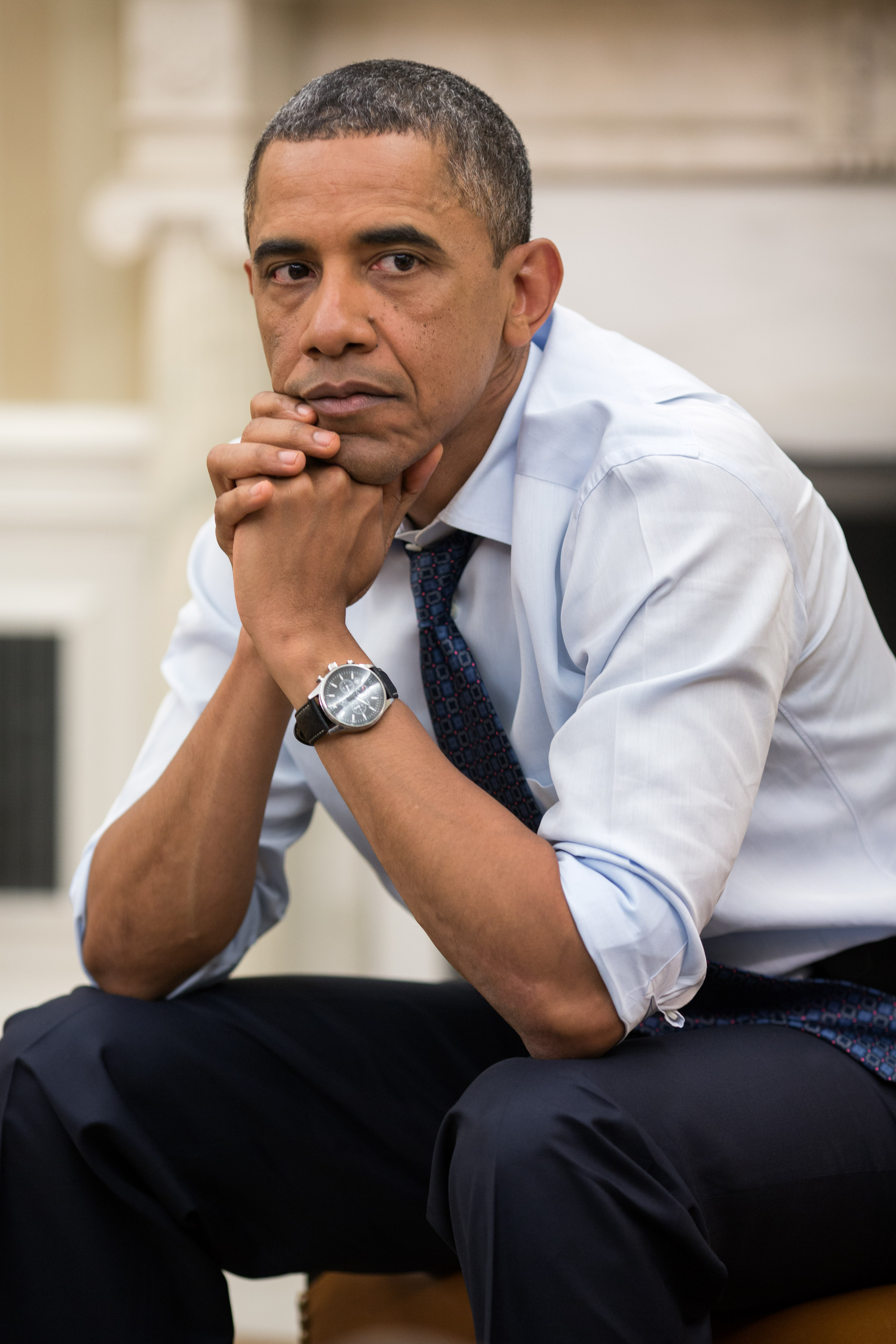 United States President Barack Obama during a meeting with senior advisors in the Oval Office to discuss fiscal cliff negotiations and the pursuit of a balanced approach to the debt limit and deficit reduction, on Saturday, 29 December 2012.